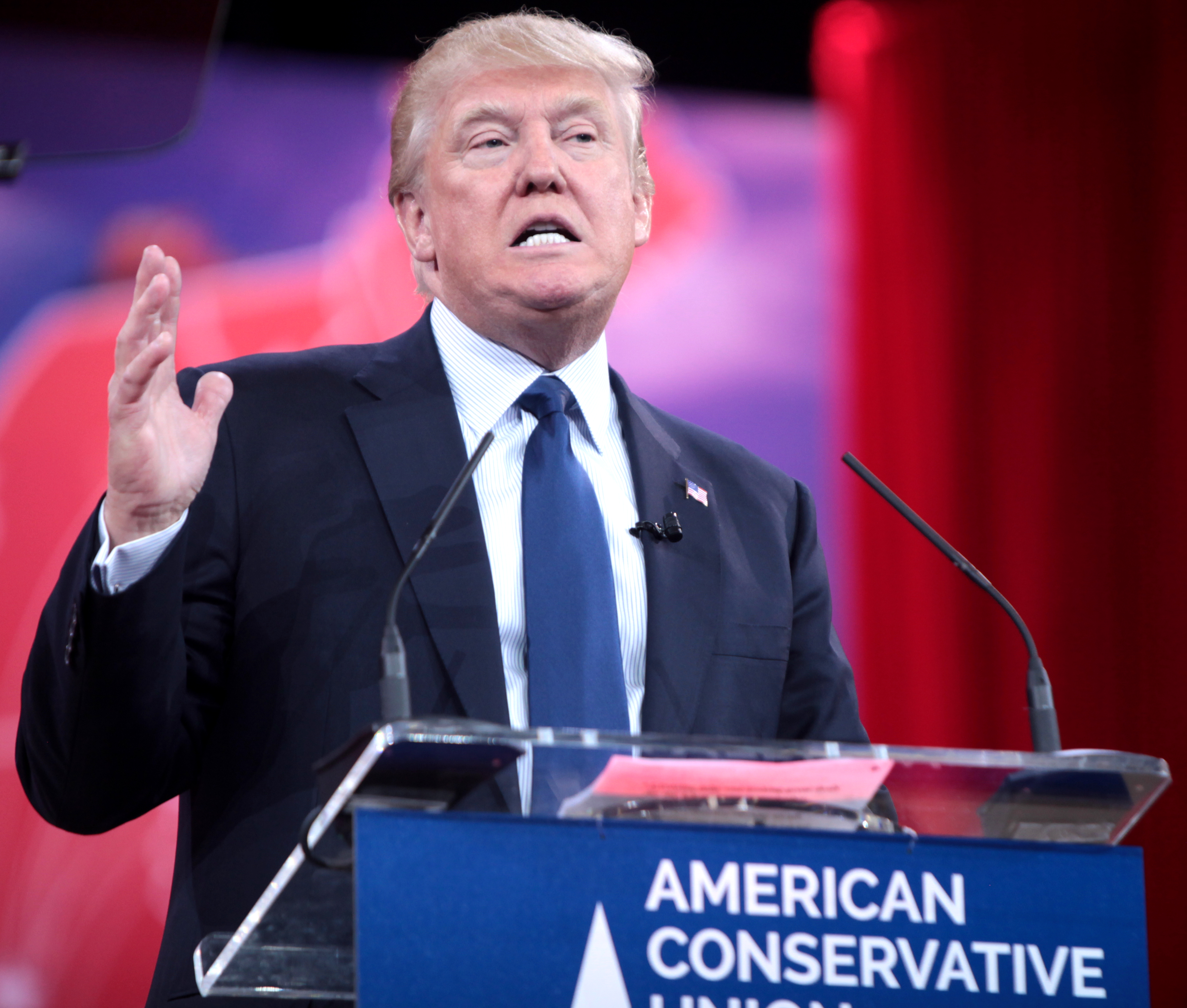 Donald Trump speaking at CPAC 2015 in Washington, DC.